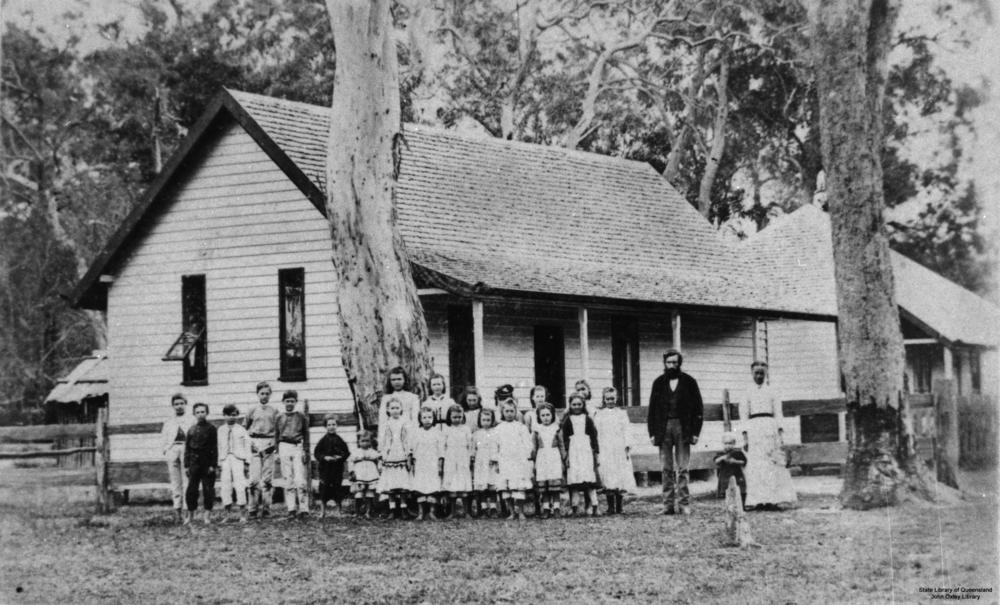 Pimpama State School, Queensland, ca. 1878 The Pimpama State School was opened in 1872. A dormitory was added on the right hand side in 1878? [Description supplied with photograph} A group of school children with two teachers, stand outside the Pimpama State School, around 1878. The timber school building has a front verandah and steeply pitched roof. Two large trees tower over the group, while bushland appears in the background.